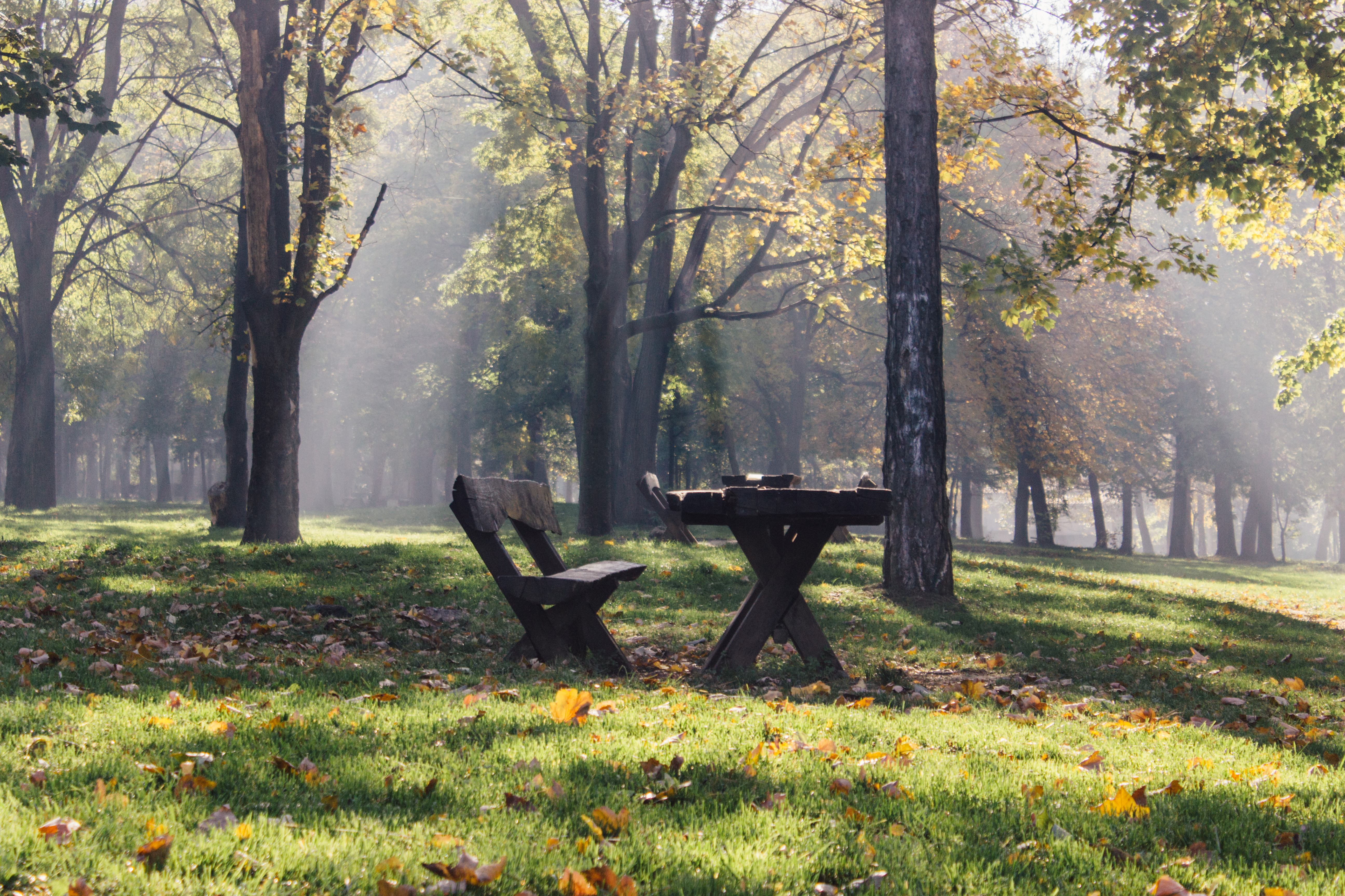 Ово је фотографија заштићеног природног добра у Србији под шифром: СП014This is a a photo of a natural area in Serbia with ID: СП014 Zvezdarska šuma